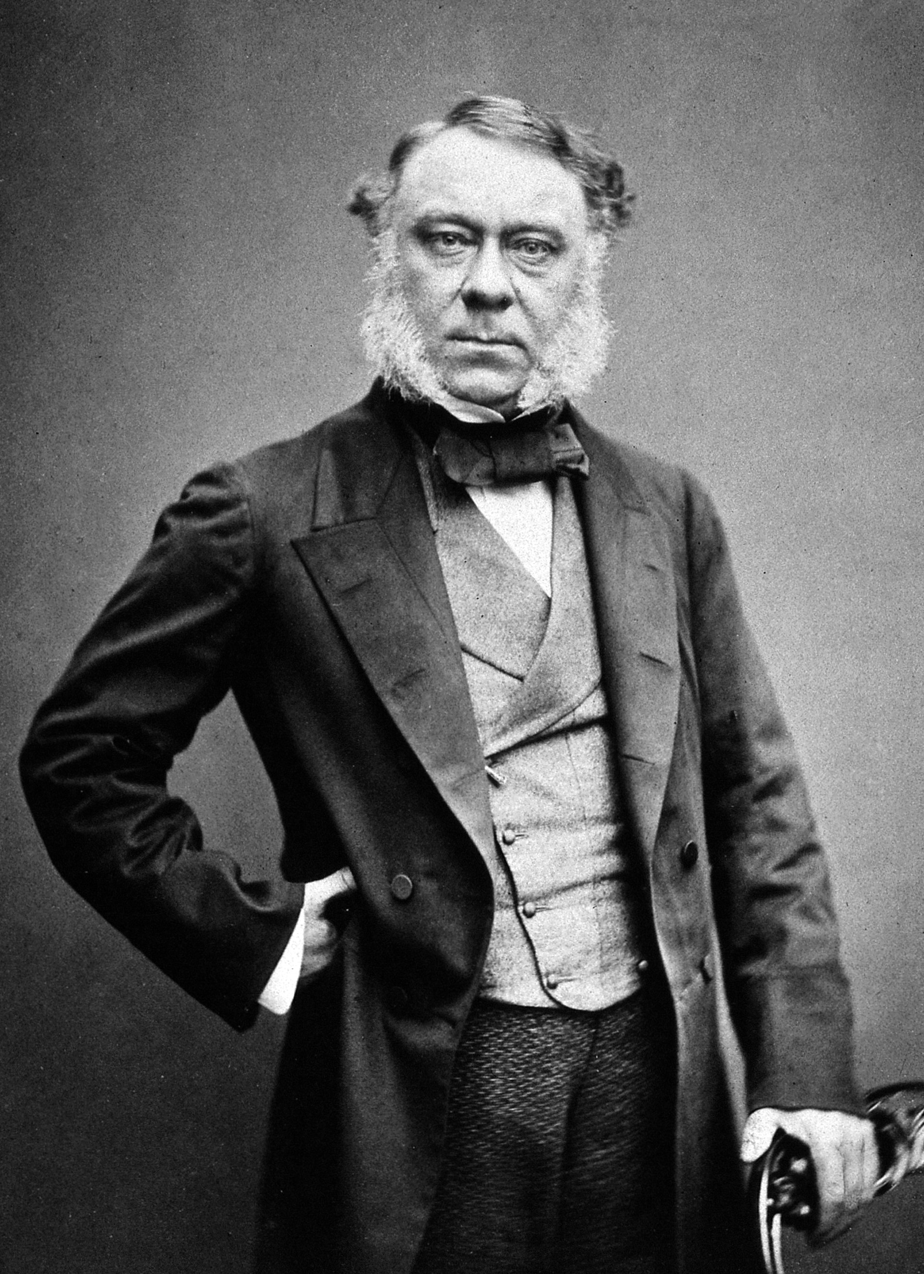 Portrait of James Ormiston McWilliam (1808–1862), Scottish physician.